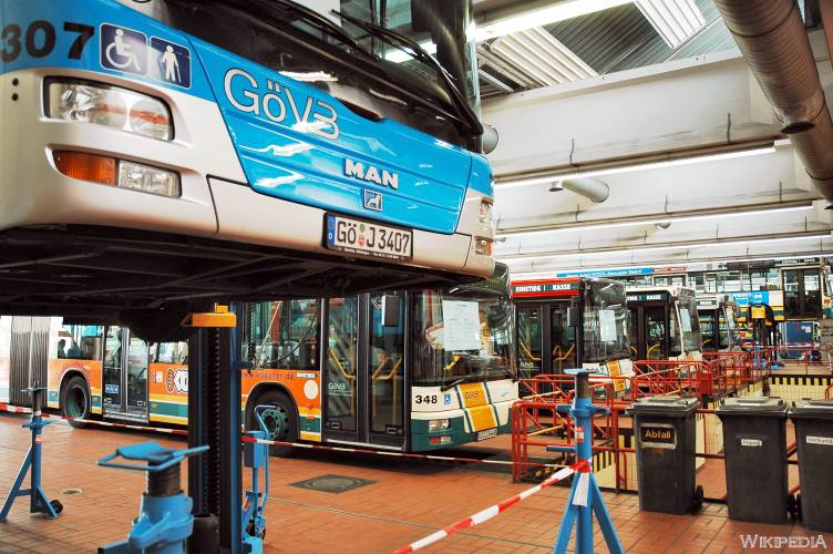 MAN NG 313 Lion's City G city bus (#307) in Göttingen, Germany. Built 2005.